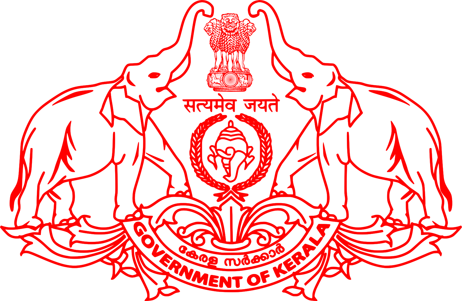 Government of Kerala Logo